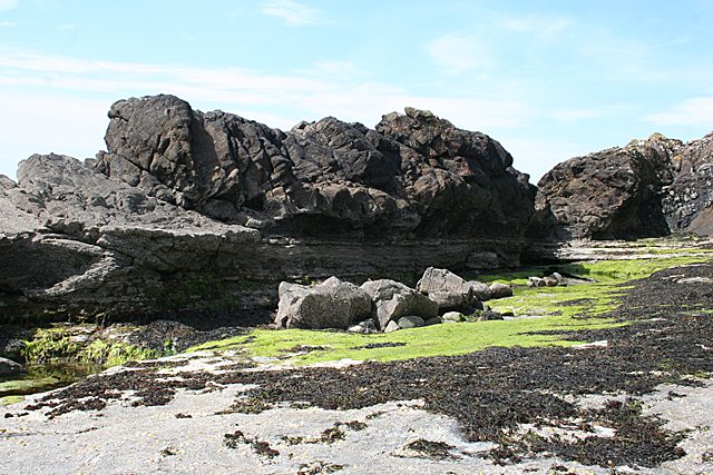 Sediment of the Kilmaluag Formation overlain by Paleogene lava